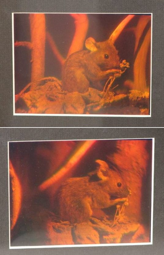 Two photos of a hologram, taken from two different views. Size of hologram ca. 13 cm × 10 cm.